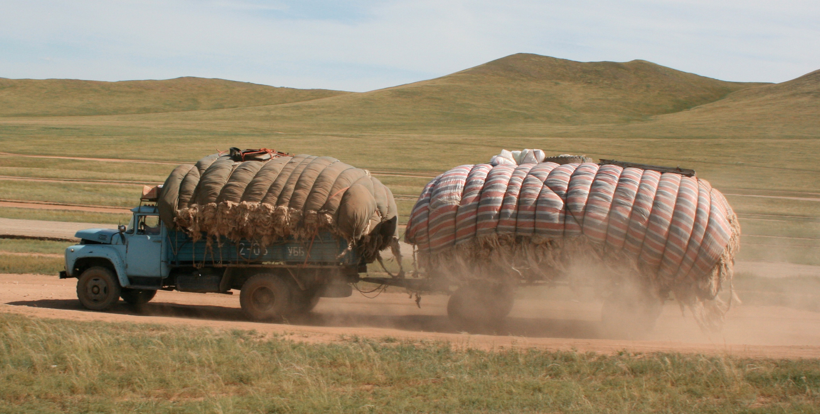 ZiL 130 with trailer transporting wool. Picture made at the main road (visible, at that time undergoing construction work) between Lün and Ulaanbaatar, Töv aimag, Mongolia. Note the many parallel tracks. The engine hood is open for better cooling.